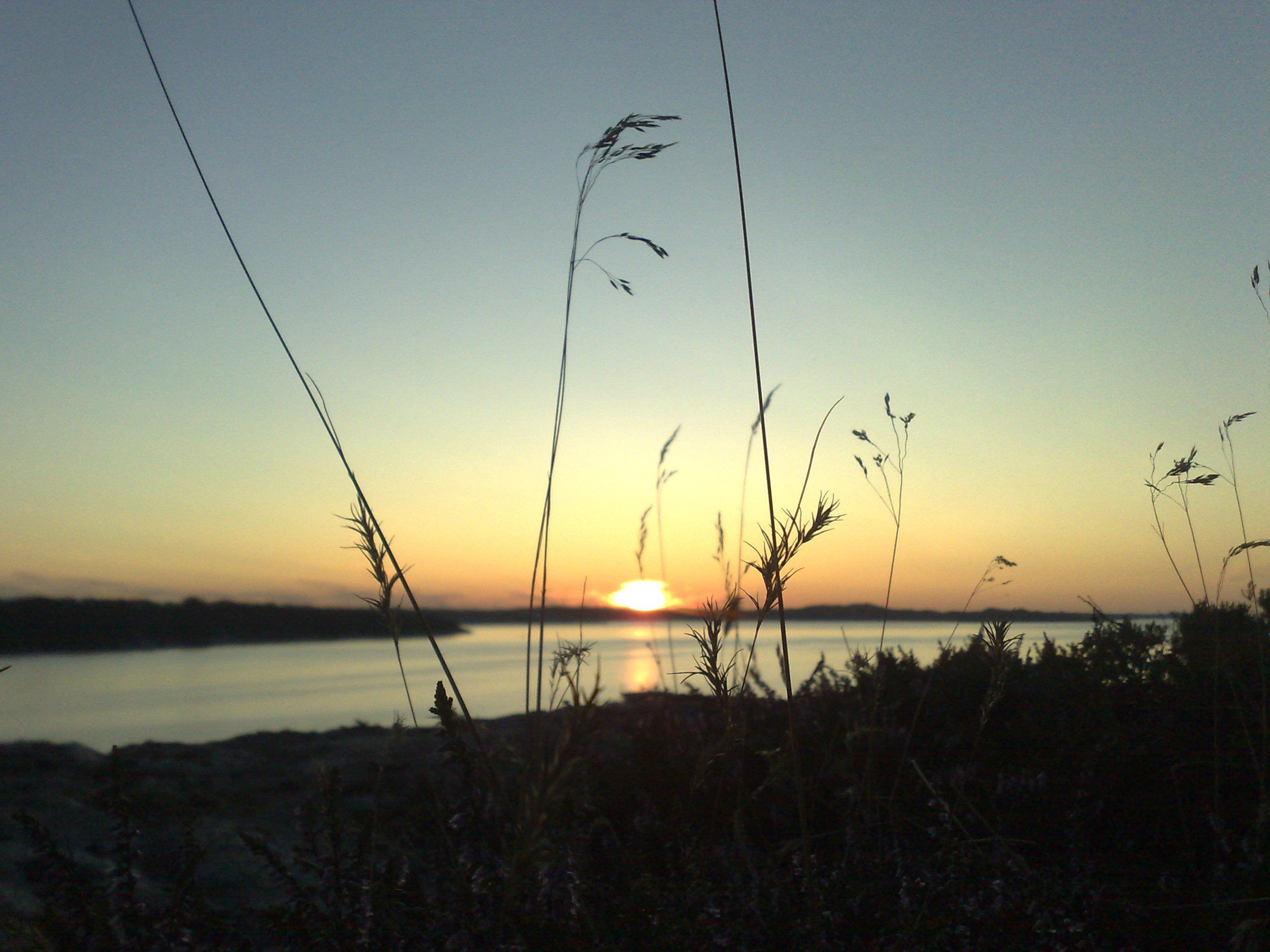 Monsegaard, Geitanger